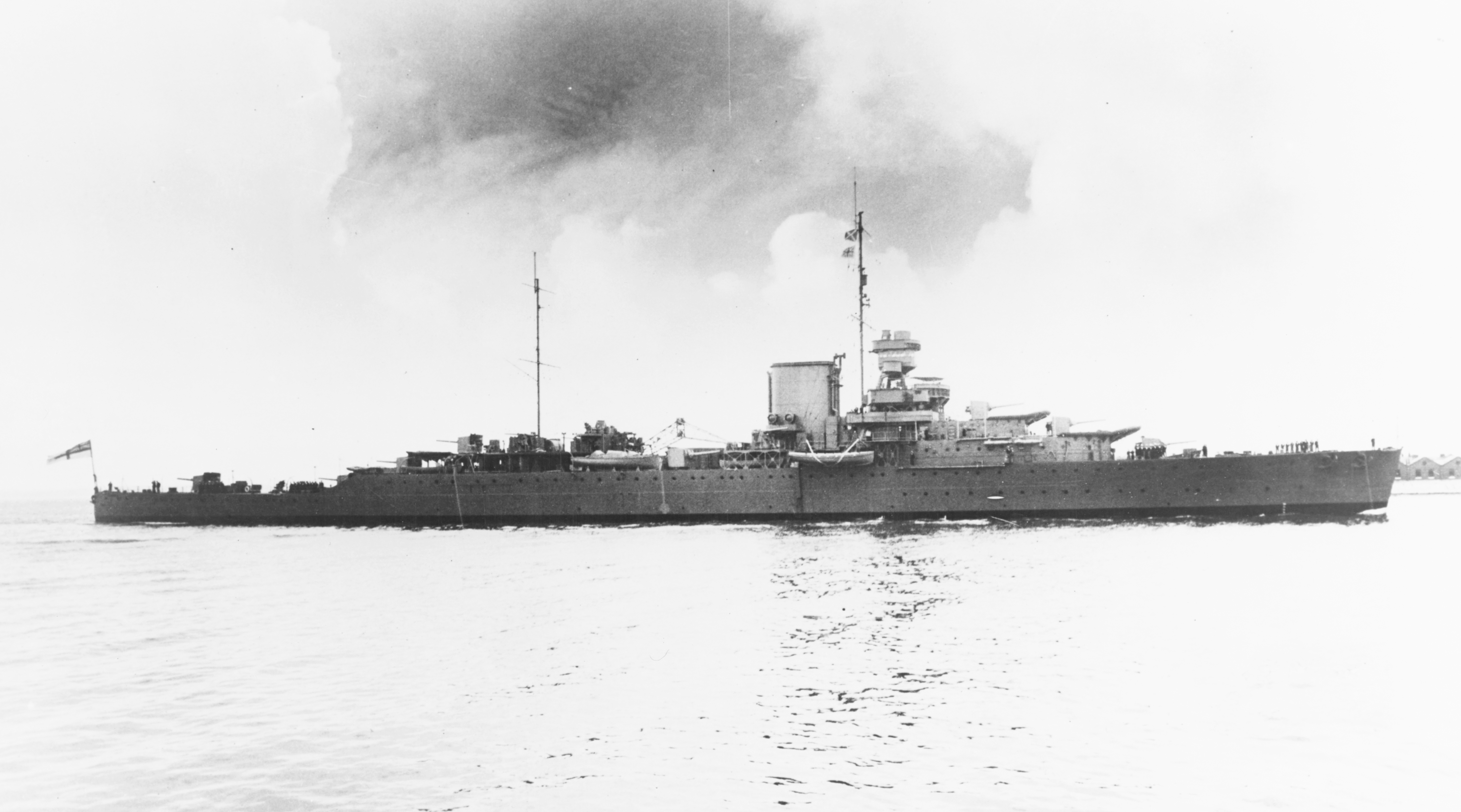 The Royal Navy heavy cruiser HMS Effingham (D98) in 1938.